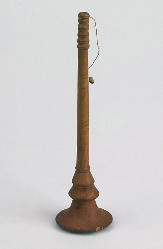 A Shawm from Indonesia with seven vinger holes.